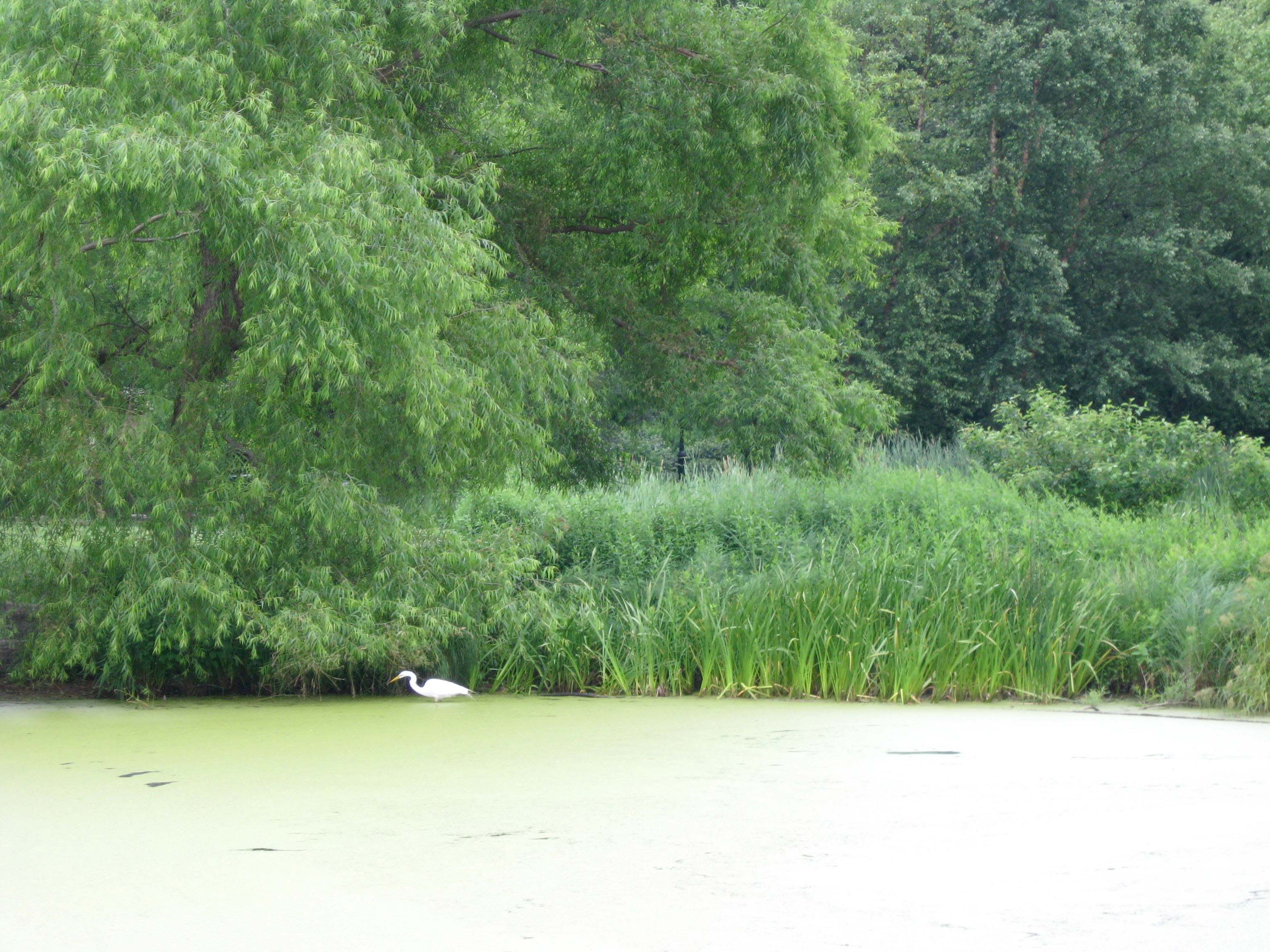 Looking southeast, full zoom, across Great Lawn and Turtle Pond, Central Park at a bird fishing, on a cloudy weekday.